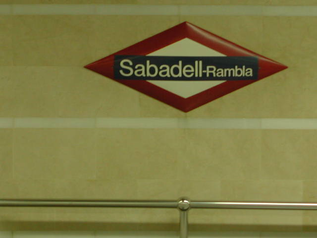 Picture from Sabadell-Rambla, Ferrocarrils de la Generalitat de Catalunya